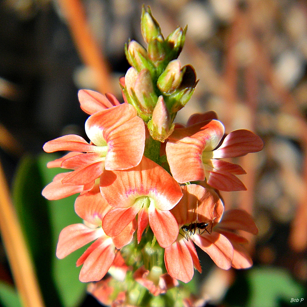 I found this Indigofera spicata while photographing I. hirsuta. In fact, I thought it was the same species (I don't see well) until I looked at the photo later at home. I went back the next day to get the foliage shot. This species is native is to Africa, Madagascar, Mauritius & Yemen but naturalized in other parts of the tropics. It is used for green manure, erosion control and is a minor source of indigo dye. Apparently it is toxic to herbivores if too much is eaten. I hope the local cottontail rabbits don't eat it. A pretty flower but it must be banished to the Hall of Weeds! Juno Dunes Natural Area, Palm Beach County.